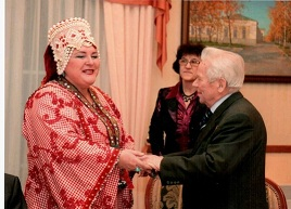 Татьяна Левкевич и генерал-лейтенант Михаил Тимофеевич Калашников на юбилейном торжестве в честь 90-летия со дня рождения знаменитого конструктора.